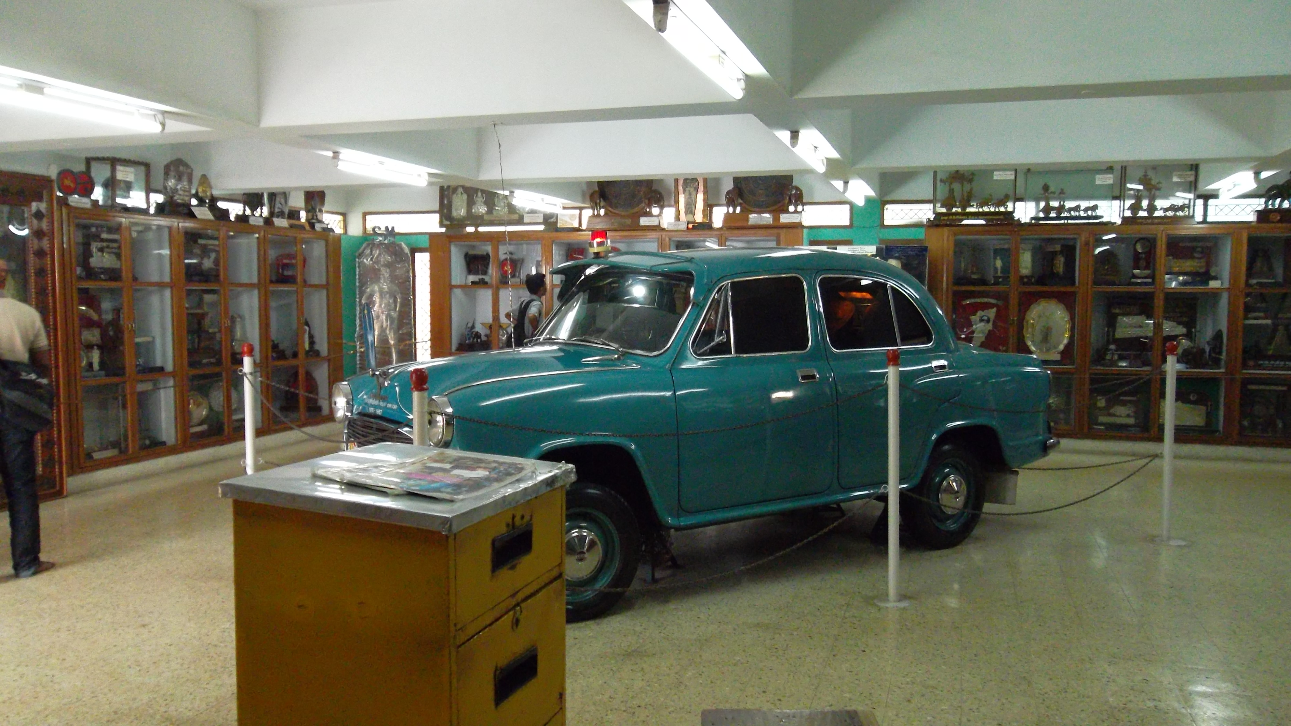 mg.r பயன்படுத்திய நீல நிற அம்பாசிடர் கார்